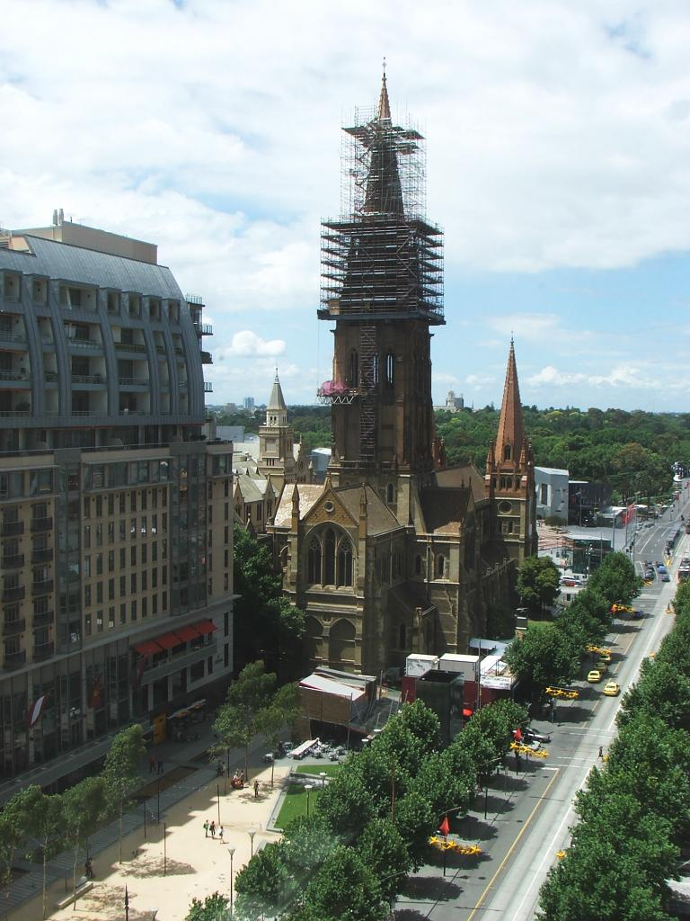 Repair work on St Paul's Cathedral, 2005